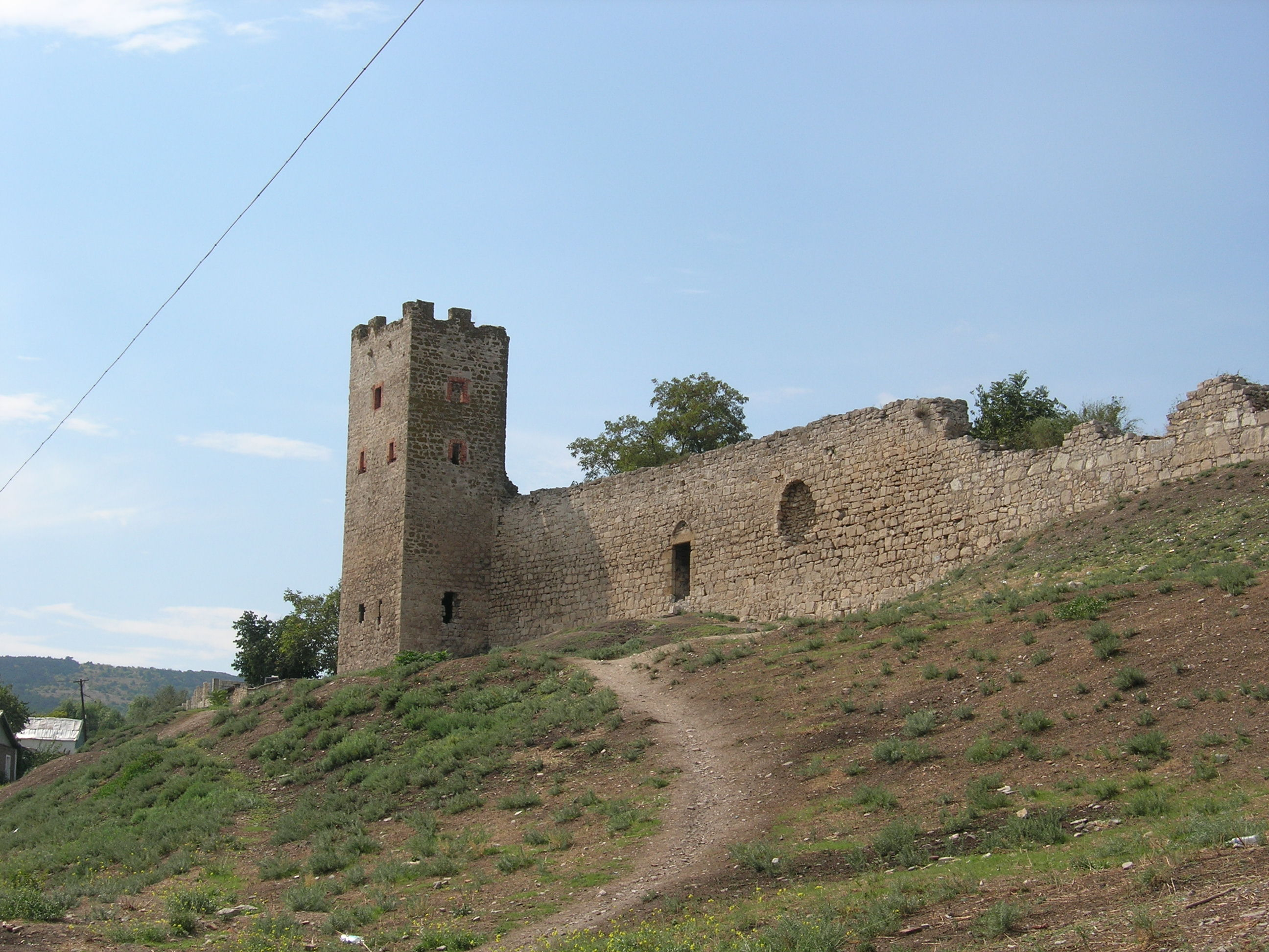 Турецкая крепость в Феодосии